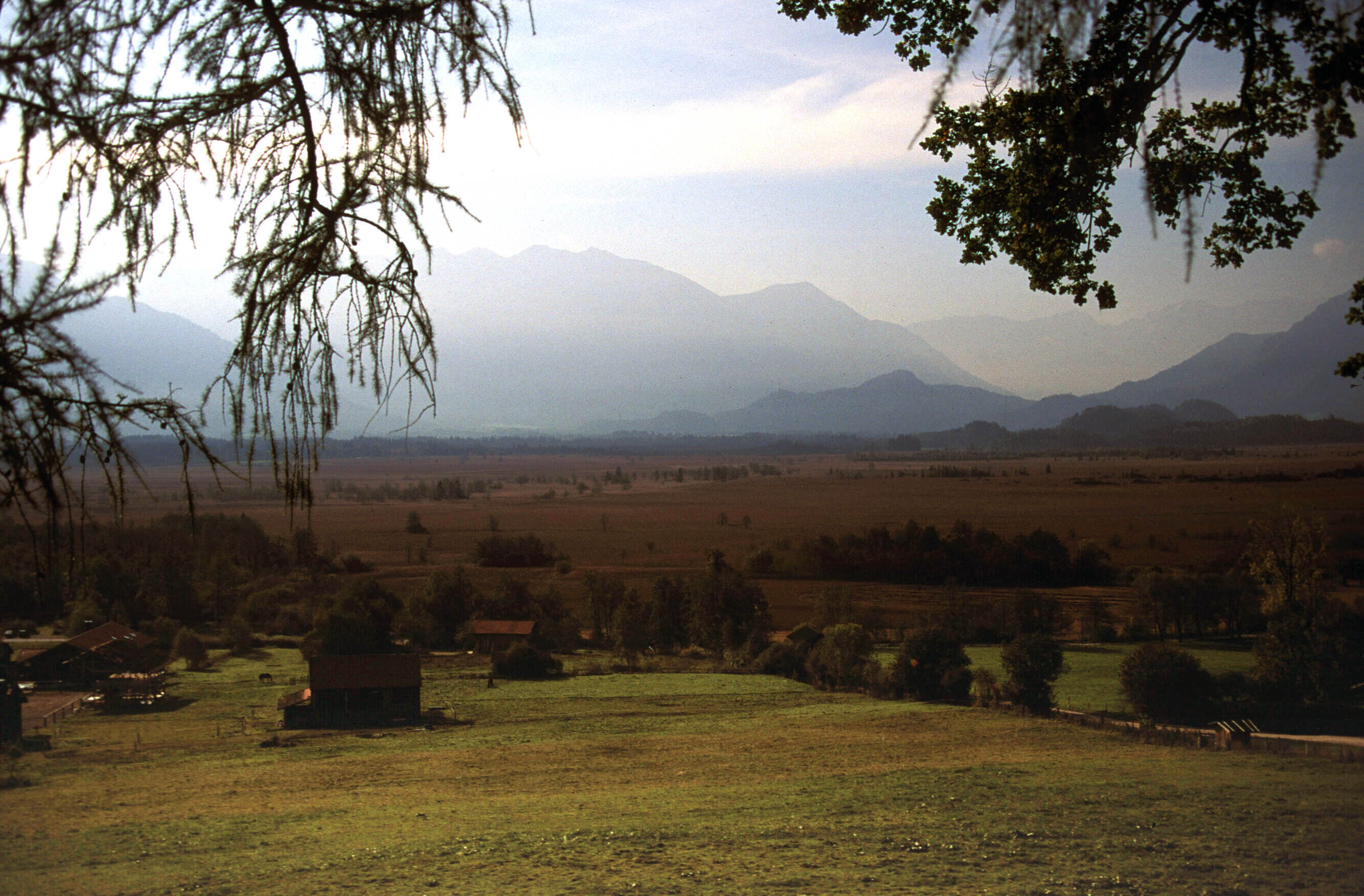 Murnauer Moos in Bavaria, Southern Germany, is a swamp close to the small town of Murnau, the northern margin of the Alps in the background